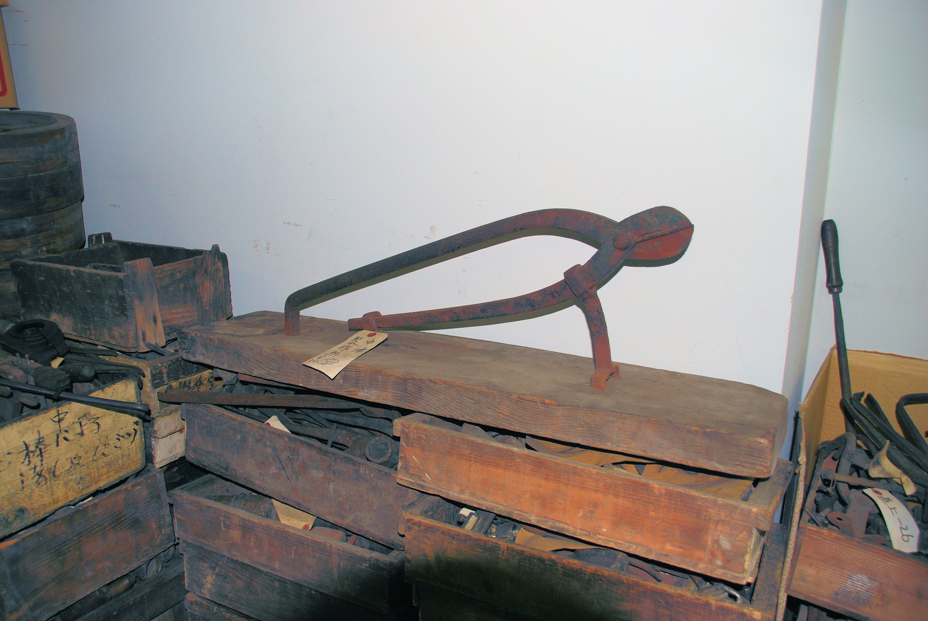 Old tools for lathe (used in Japan)